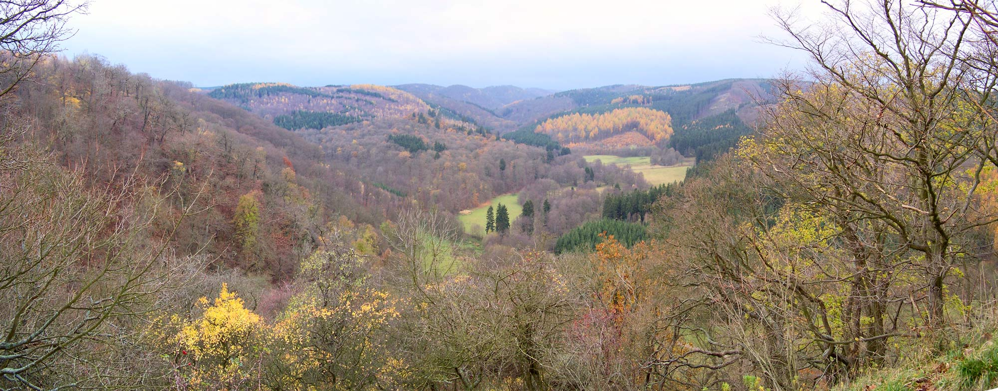 View of the Selke Valley from Alten Falkenstein. Germany